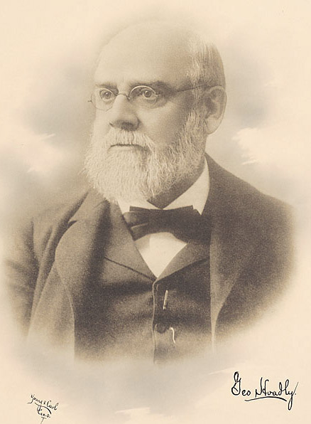 George Hoadly (1826-1902)